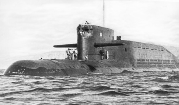 Soviet submarine K-433 of Delta-III class in Provideniya Bay after passing Chukchi Sea through Herald canyon (Herald Arch?). Sail is damaged by a blow on the ice when surfacing.